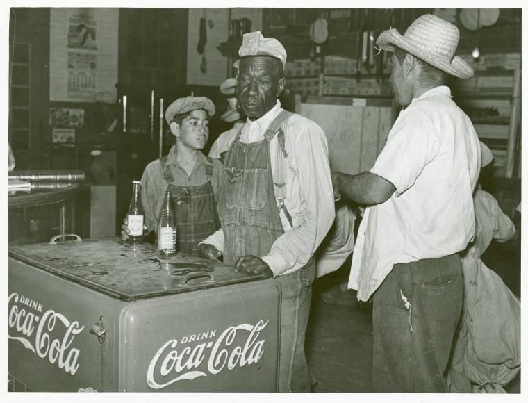 Content: Original negative #: 52248-D Universal Unique Identifier (UUID): ceef2870-c612-012f-dac3-58d385a7bc34